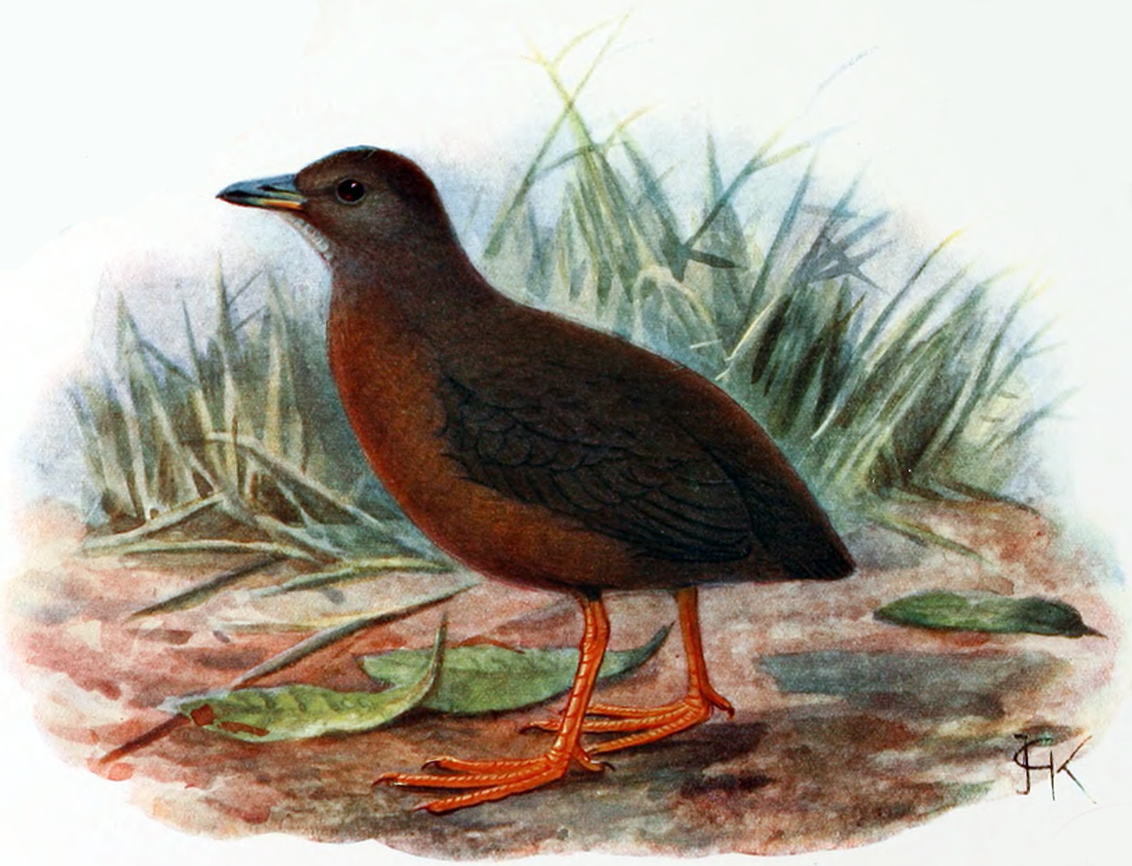 Hawaiian Rail (Porzana sandwichensis, synonyms: Pennula sandwichensis, Pennula millsi), Hawaiian Spotted Rail, or Hawaiian Crake was a somewhat enigmatic species of diminutive rail that lived on Big Island, Hawaiʻi, but is now extinct.